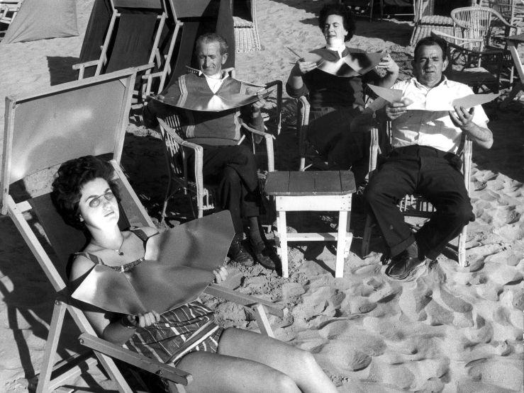 Nationaal Archief / Spaarnestad Photo/ Harry Pot, SFA001007151 Zonnen met een opvouwbare zonnestralenvanger of reflector. Nederland, Zandvoort, 1961. Bij het tafeltje: de familie Brand. Vlnr: Dirk Brand ('s zomers melkboer voor het tentenkamp op het Noorderstrand), mevrouw Brand-Terol, en haar man Jan Brand (broer van Dirk, en melkboer en strandpachter van paviljoen Midden-Zuid, nr 3). Sun bathing with a foldable reflector. The Netherlands, 1961. Collectie Spaarnestad Voor meer informatie en voor meer foto’s uit de collectie van Spaarnestad Photo, bezoek onze Beeldbank: U kunt ons helpen onze kennis van de fotocollecties te verrijken door tags en commentaren toe te voegen. Herkent u mensen of locaties of heeft u een bijzonder verhaal te vertellen bij één van de foto’s, laat dan een reactie achter (als u ingelogd bent bij Flickr) of stuur een mailtje naar: You can help us gain more knowledge on the content of our collection by simply adding a comment with information. If you do not wish to log in, you can write an e-mail to